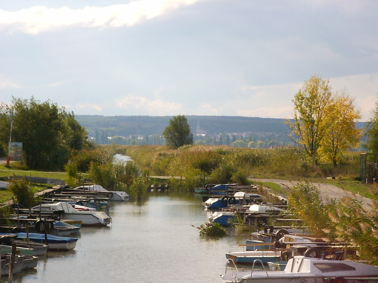 Boats in Fertőrákos